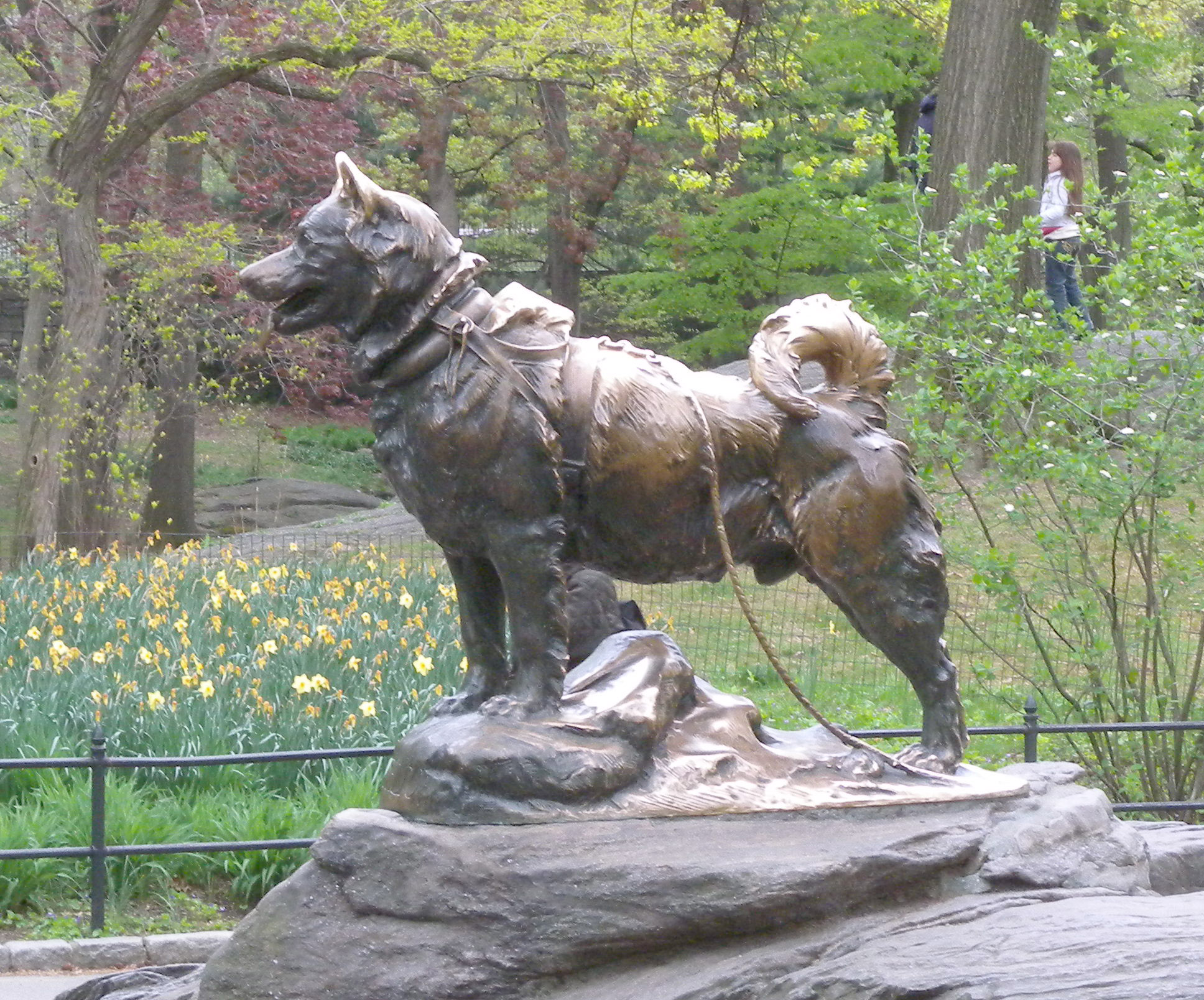 Looking southeast at Balto statue from a nearby rock on a cloudy afternoon.